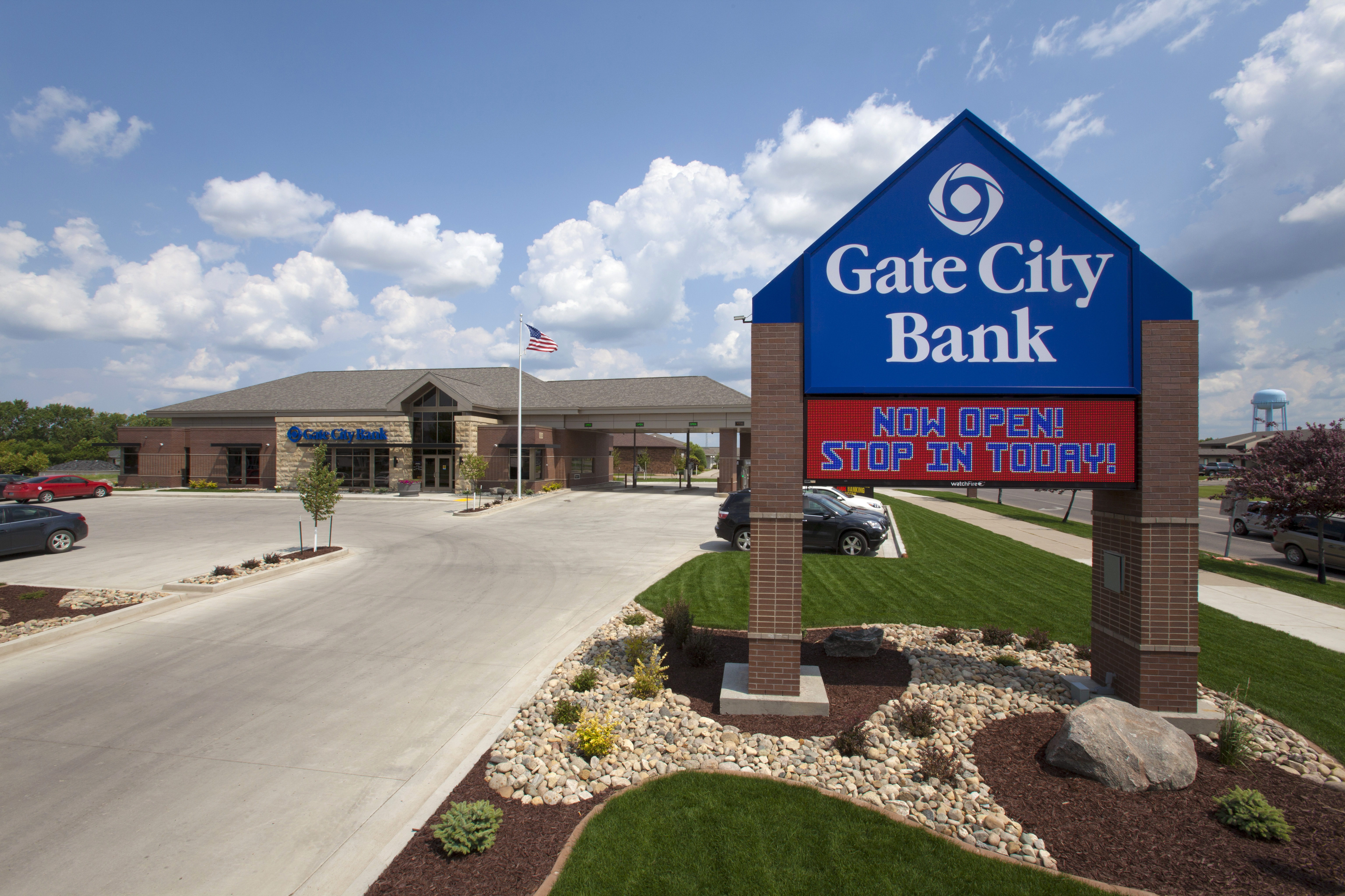 Gate City Bank Dakota Square office in Minot, North Dakota.